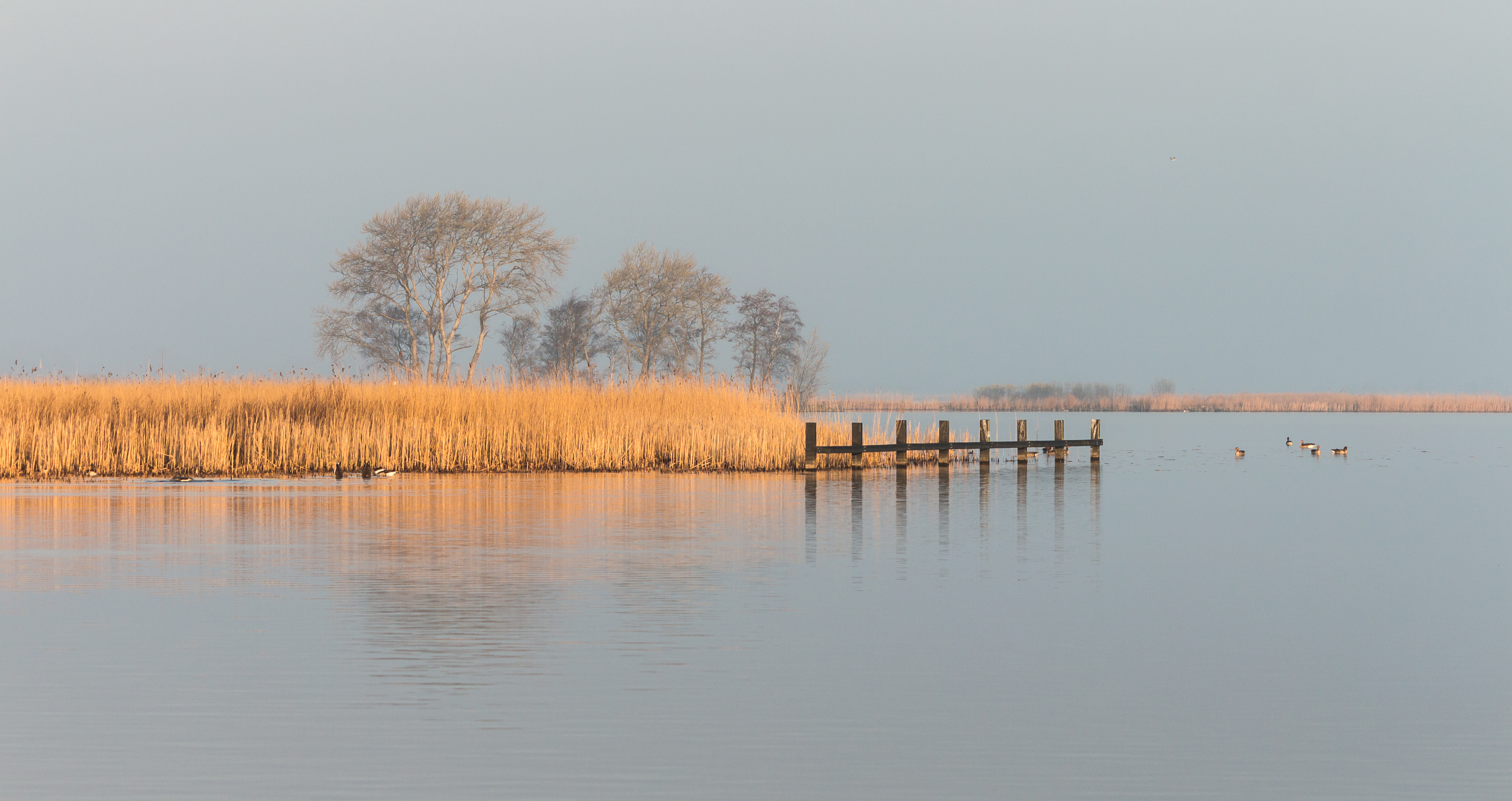 Goëngarijpsterpoelen (Frysk) Goaiïngarypster Puollen View of the lakes from Heerenzijl. The first rays of sunshine in the morning dispel the mist. and shine on the trees and the reeds.